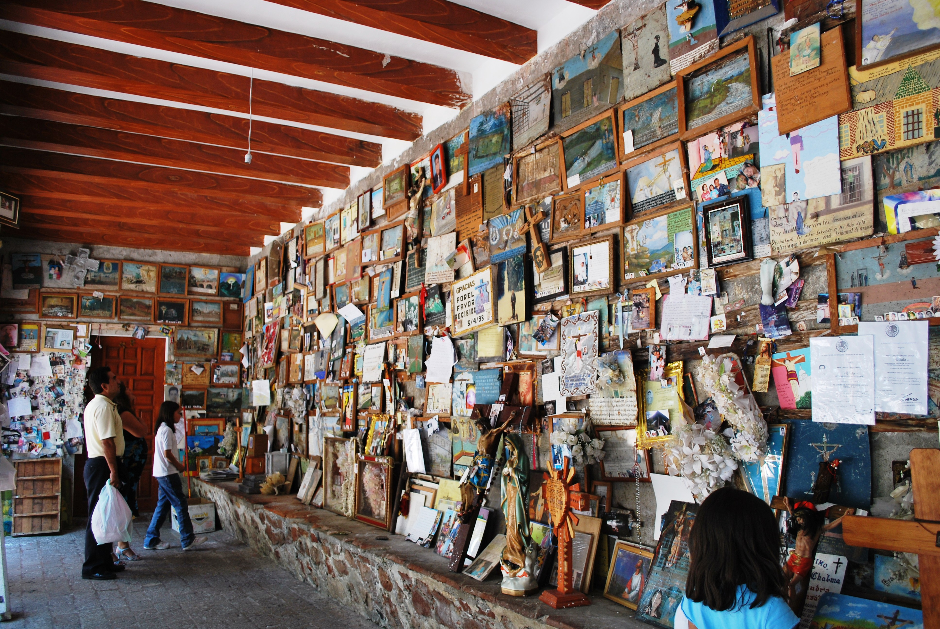 Overview of the folk retablo area at the Sanctuary of Chalma in Chalma, Malinalco, Mexico State